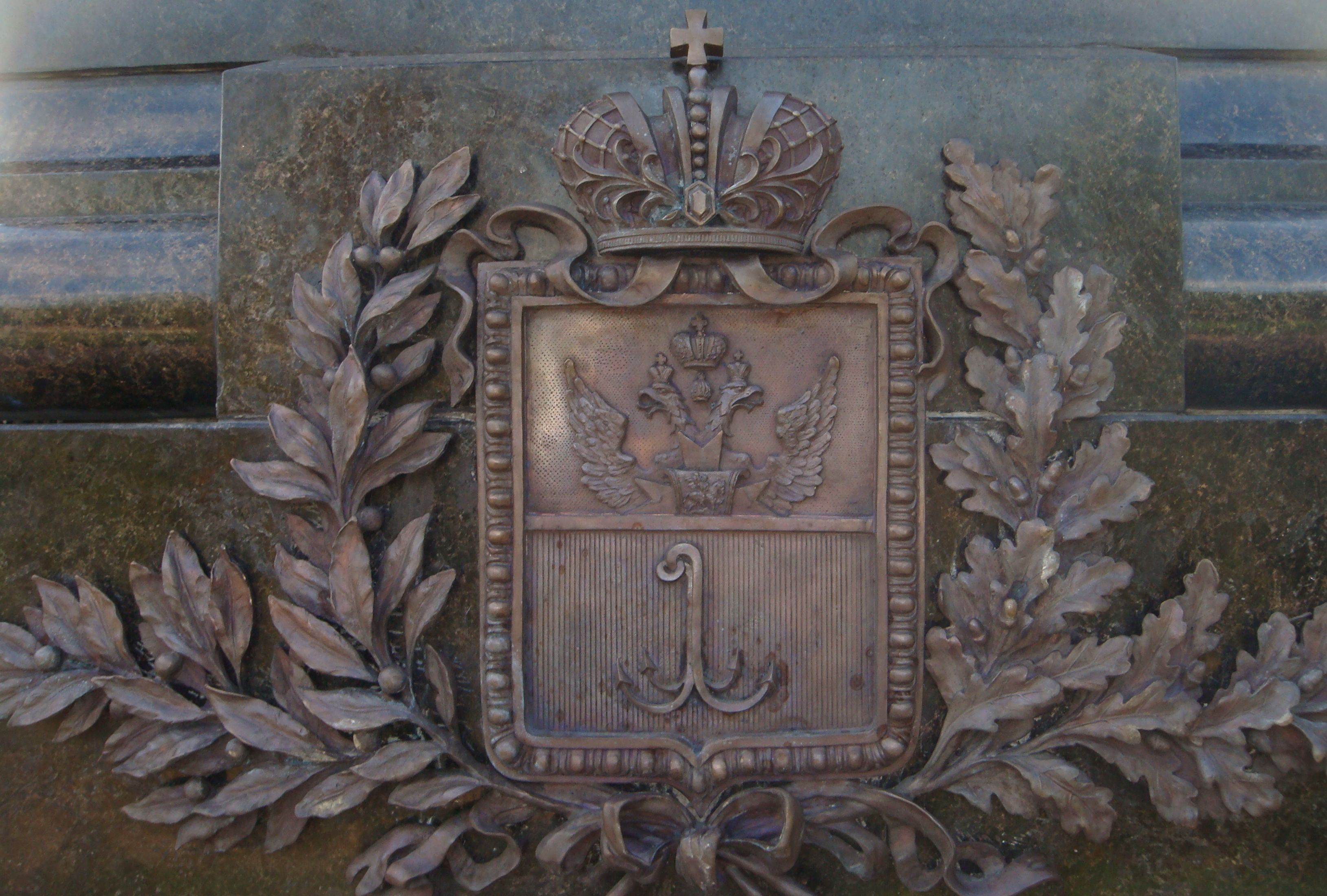 Decoration element of Alexander II colomn, Odessa. Coat of arms of Odessa. 1798 - 1917